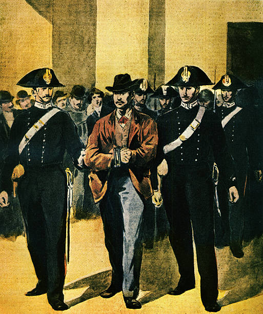 Gaetano Bresci (1869-1901), an anarchist textile worker and the murderer of Humbert I of Italy (29 July 1900), during transfer from prison to the Court of Assizes.